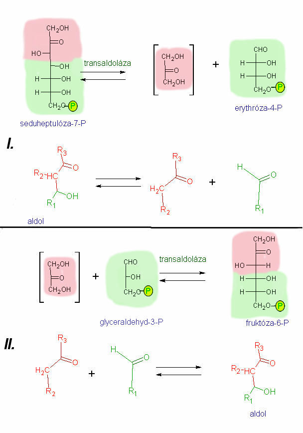 transaldolase reaction